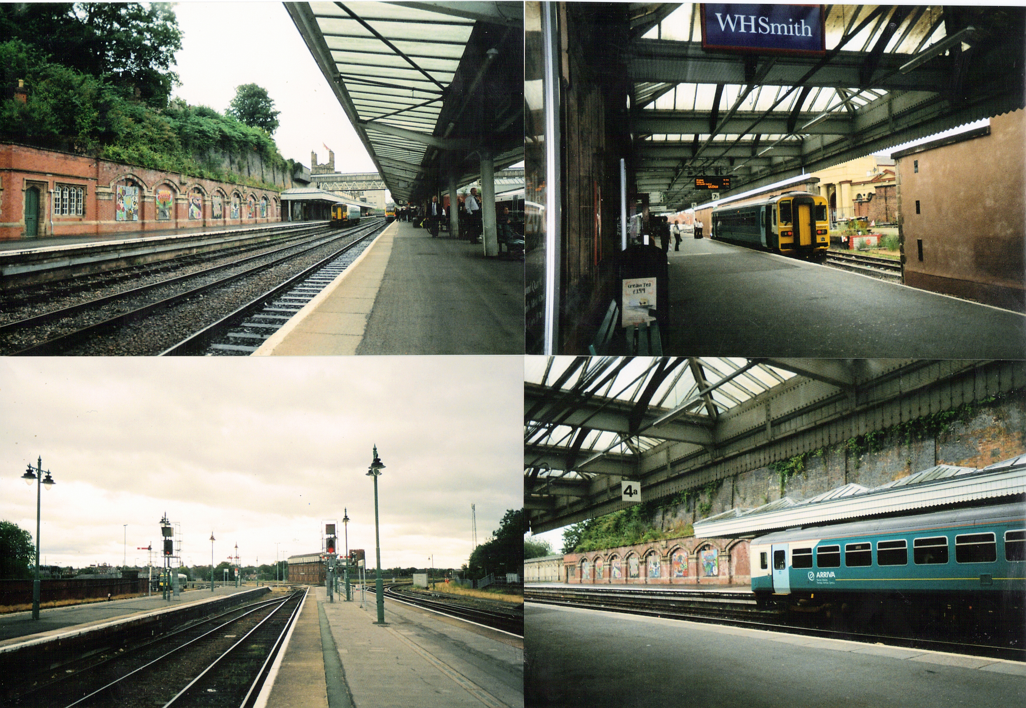 Some pictures of mine of Shrewsbury station in 2010.